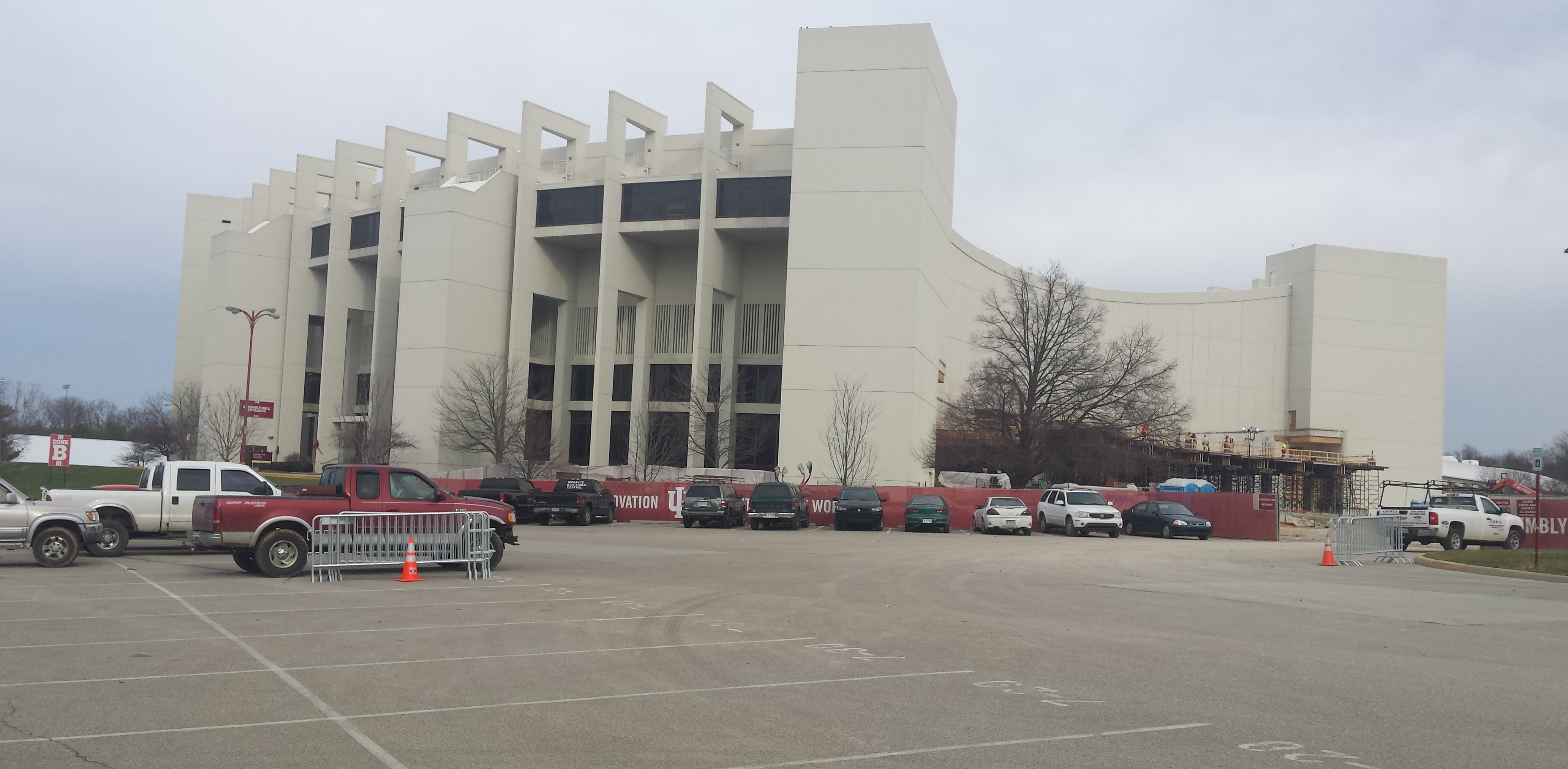 Outside of Indiana University's Assembly Hall in December, 2015